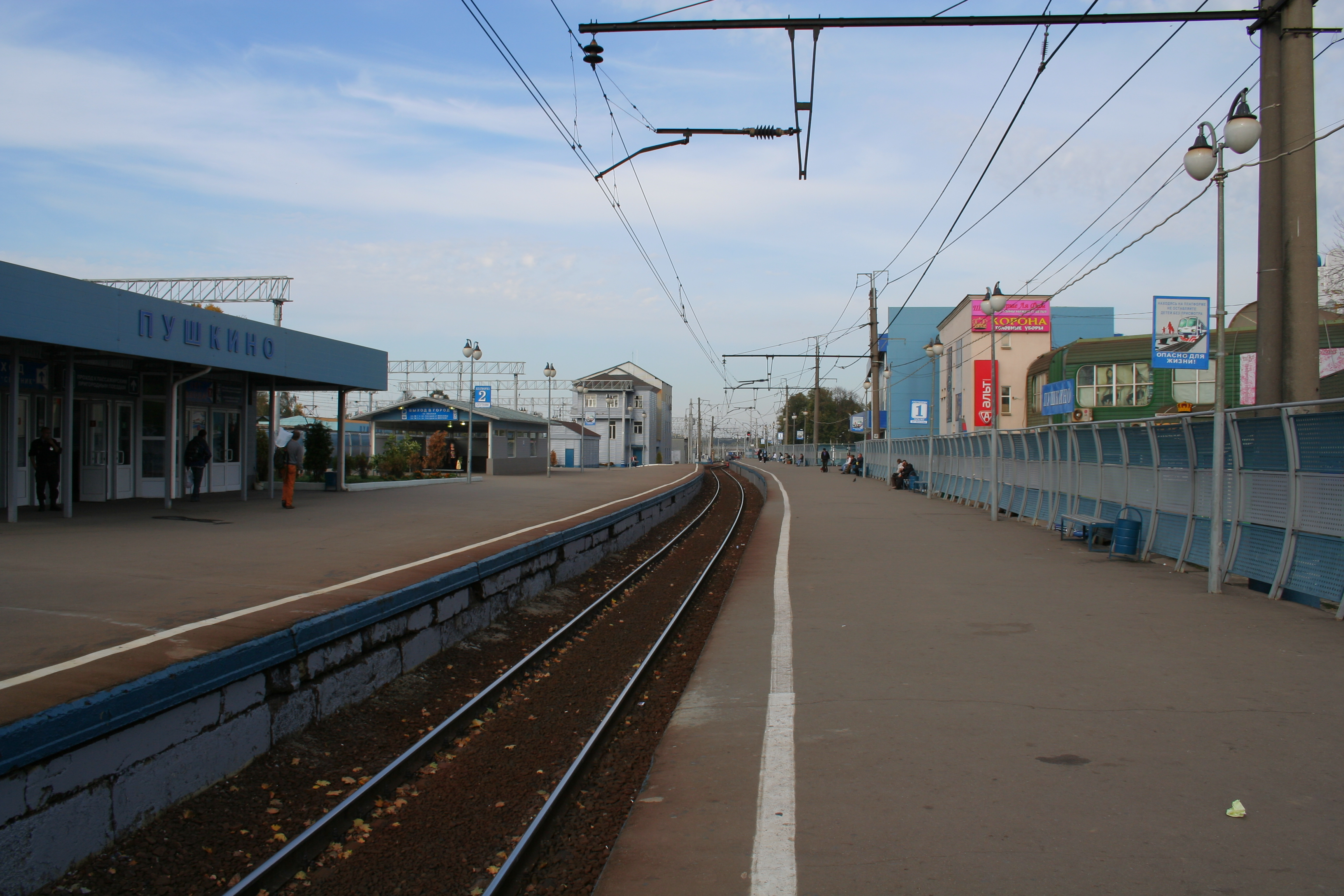 Train station Pushkino, Moscow Oblast